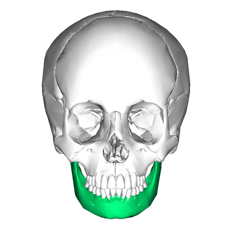 Mandible (shown in green).